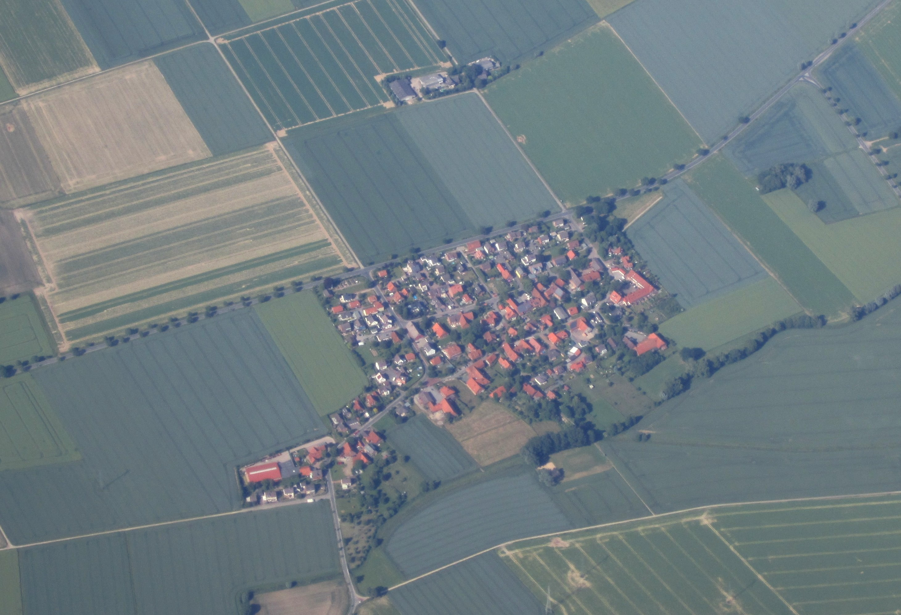 Aerial view of Lathwehren near Hanover, Germany.